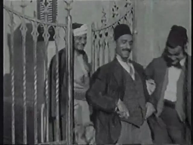 Barsoum Looking for a Job (1923 film), image extracted from film